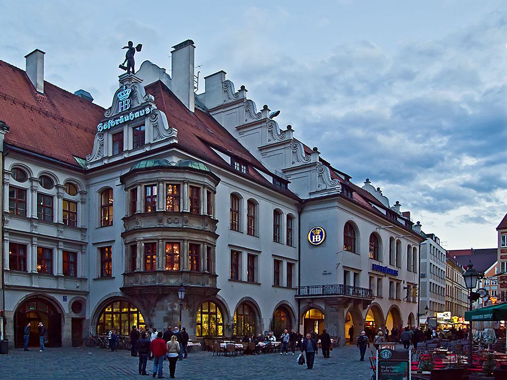 Munich Hofbräuhaus, is located Am Platzl, Munich